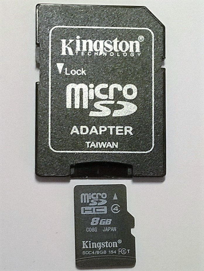 Micro SD card with an adapter